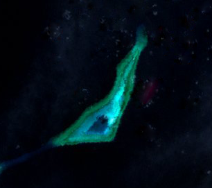 Irving Reef is an atoll of Spratly Islands.